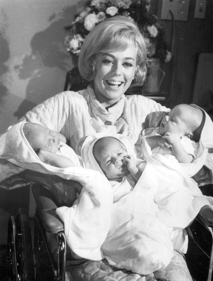 Photo of Tina Cole as Robbie's wife, Katie, bringing their triplets home from the hospital on the television program My Three Sons.